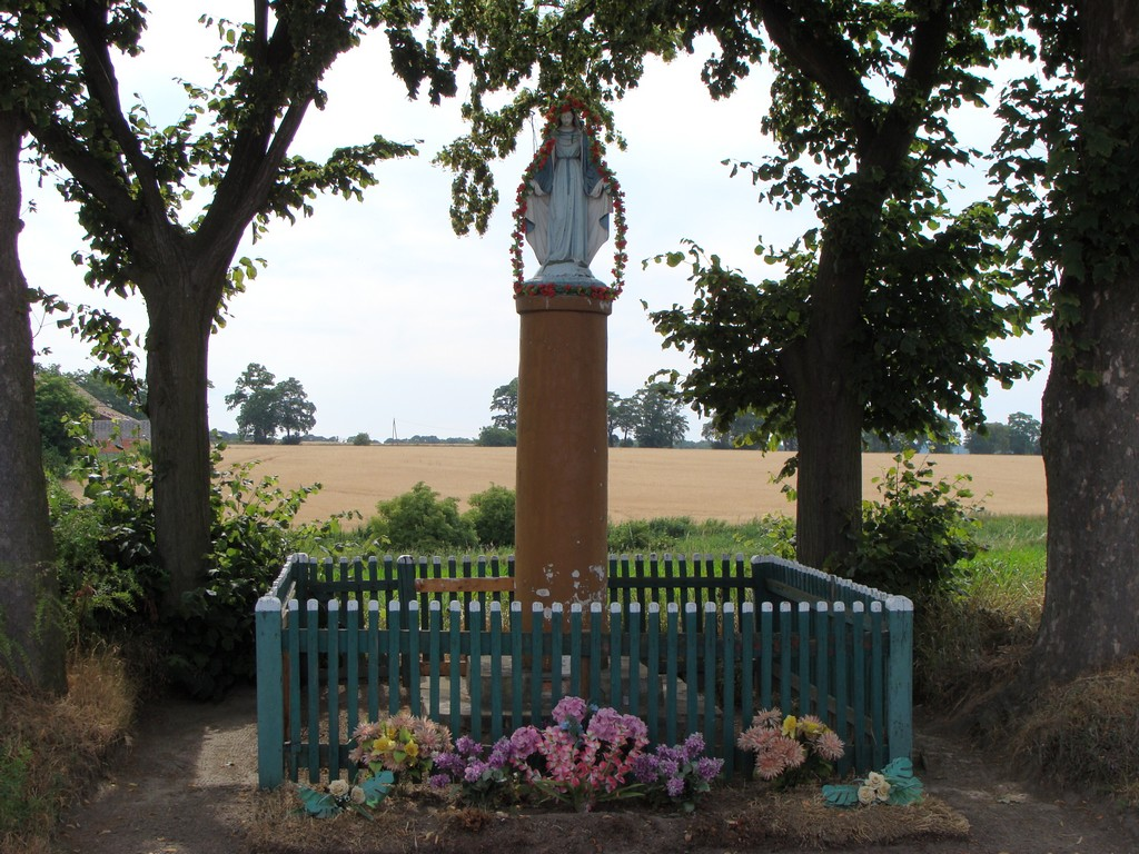 Kadzewo, roadside figure.